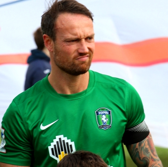 Martin Jiránek2014